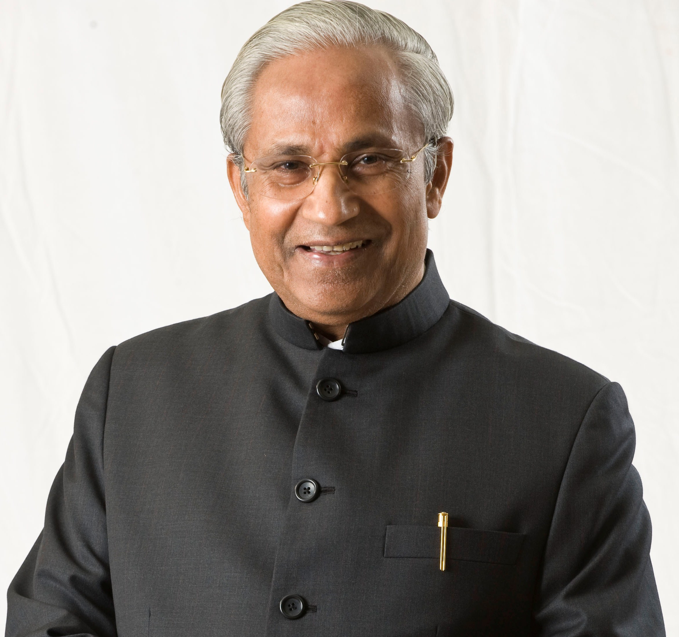 Profile photo of the person the page is dedicated to.